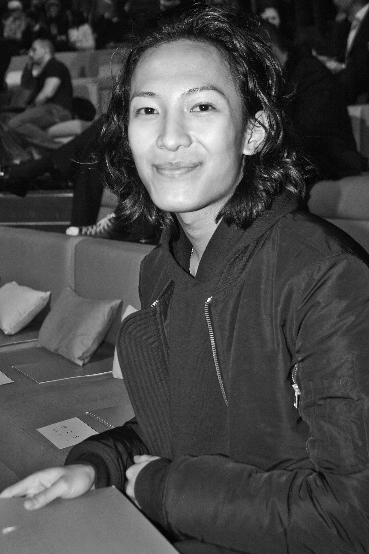 Alexander Wang at the 2009 Victoria's Secret Fashion Show.